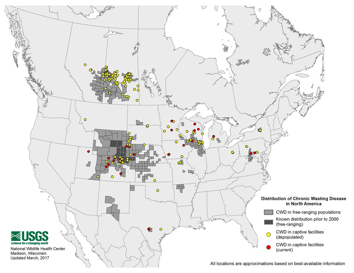 This map shows the distribution of chronic wasting disease in North America ; showing captive facilities, both current and depopulated, and free-ranging deer (current and before 2017).